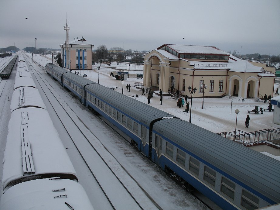 Railway station of Rechytsa city in the Gomel oblast, Belarus.